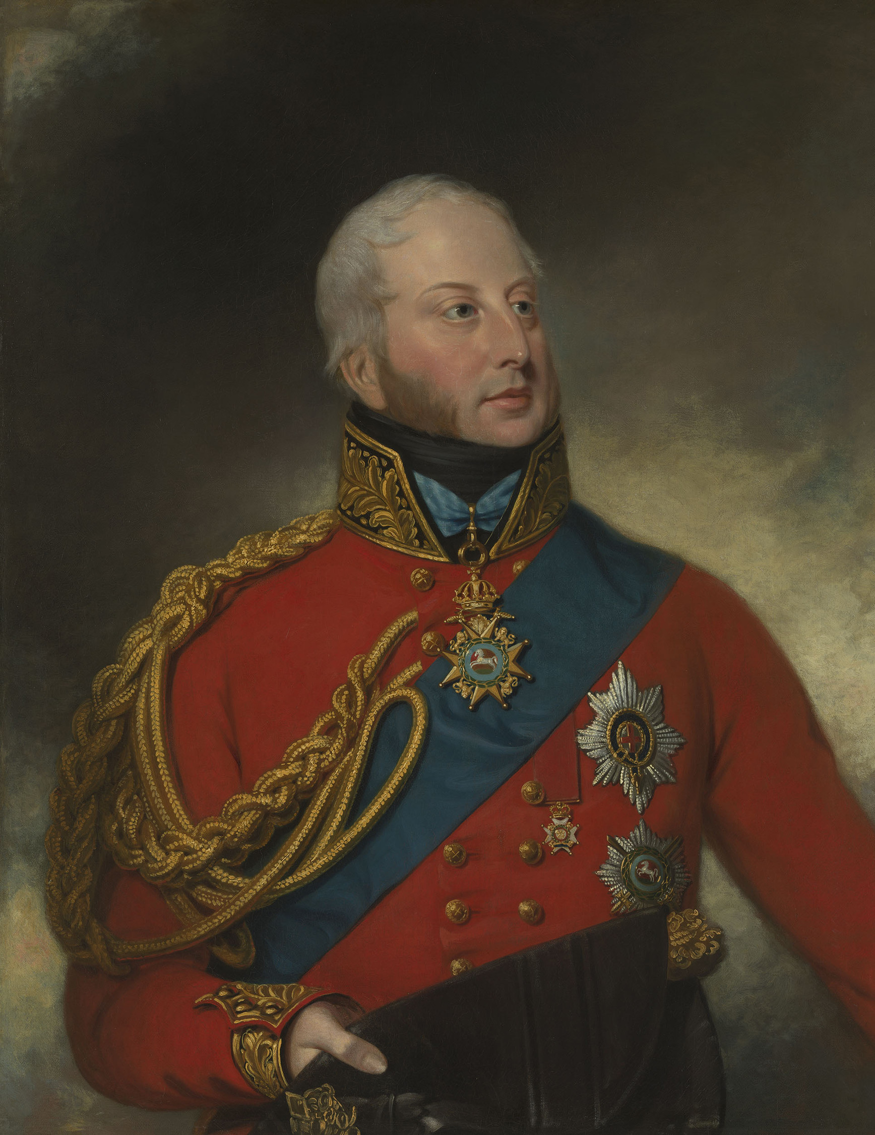 his is a portrait or version of a portrait of c. 1815-20. The Duke is shown wearing Field Marshal's uniform with the riband and star of the Order of the Garter and the neckbadge and star of the Royal Guelphic Order, holding his cocked hat in his right hand.